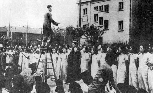 Newspaper photo of Liu Liangmo Leading YMCA Patriotic Chorus Shanghai 1936;Other information: widely reprinted sources in China: [1]